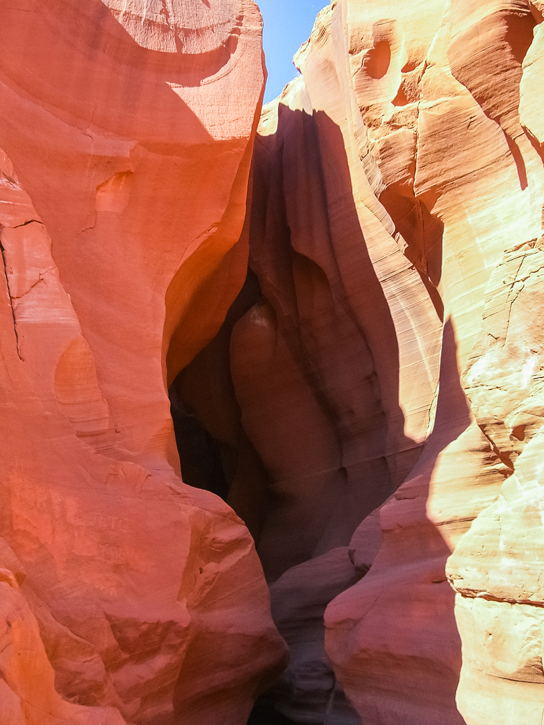 Antelope Canyon, Utah, USA